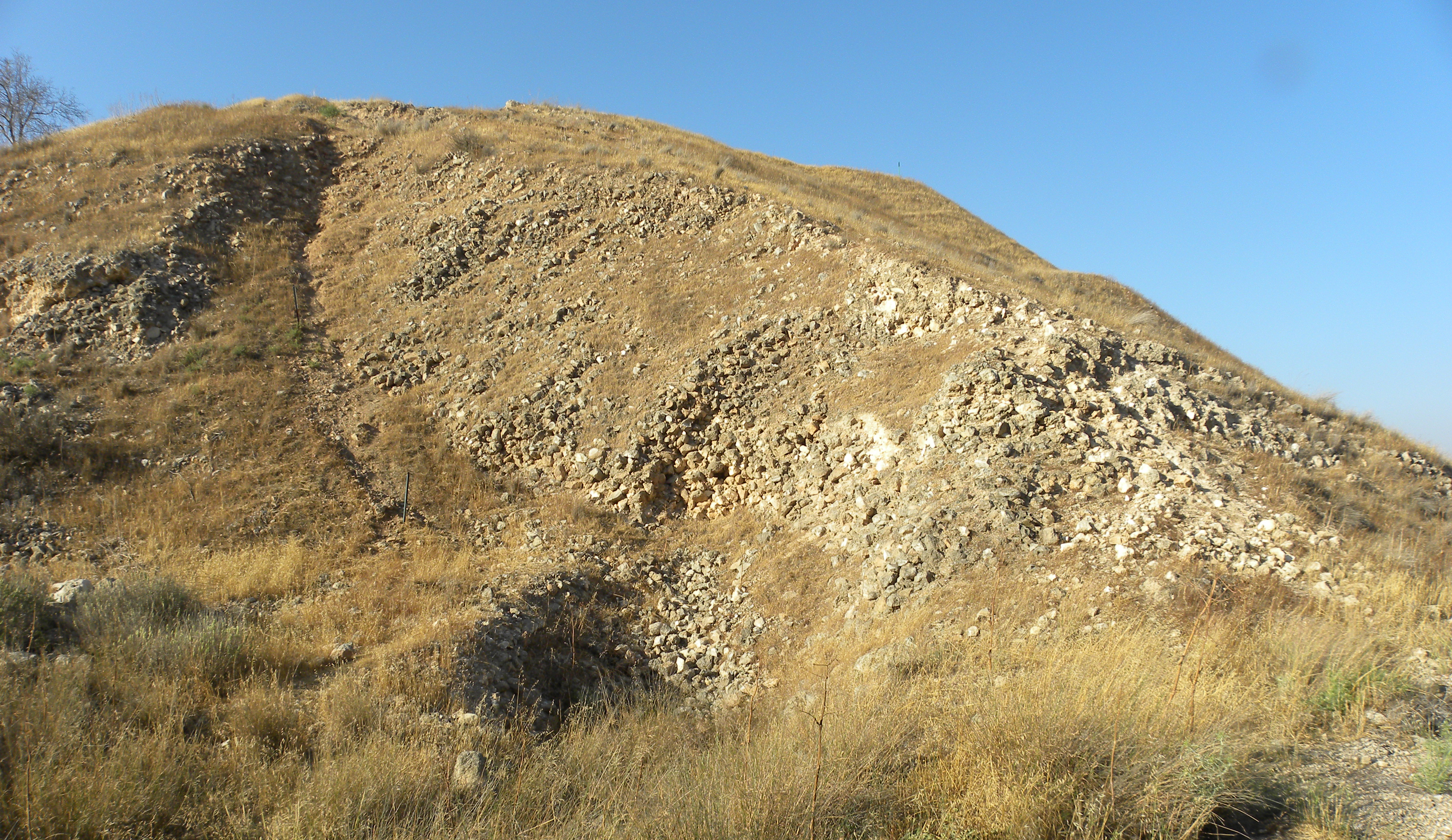 Siege ramp, Lachish archaeological site.